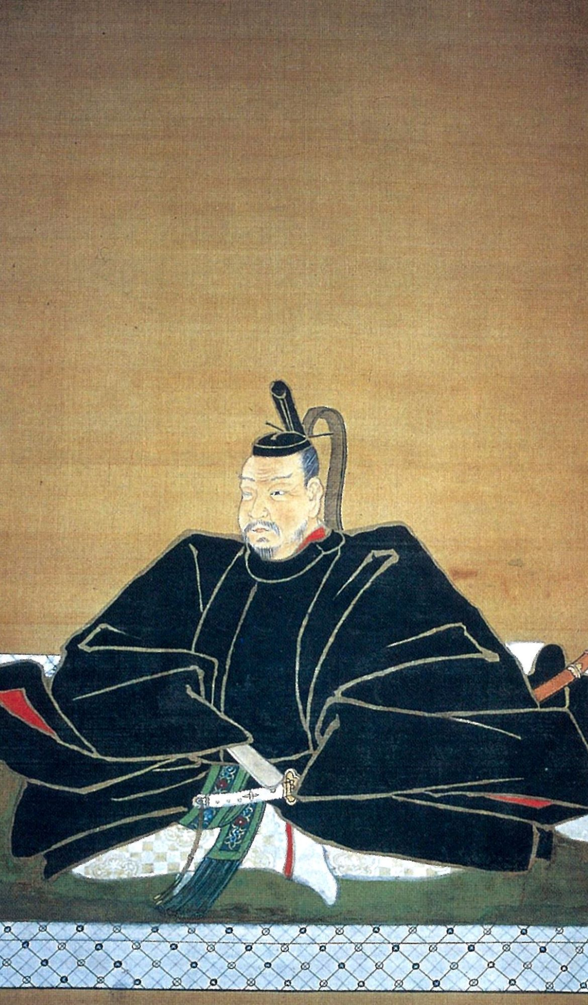 Portrait of Date Masamune (1567-1636). Made by Tosa Mitsusada (1738 - 1806).